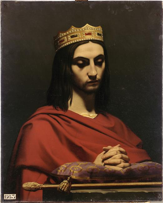 This painting belongs to the Portraits of Kings of France, a series of portraits commissioned between 1837 and 1838 by Louis Philippe I and painted by various artists for the Musée historique de Versailles.